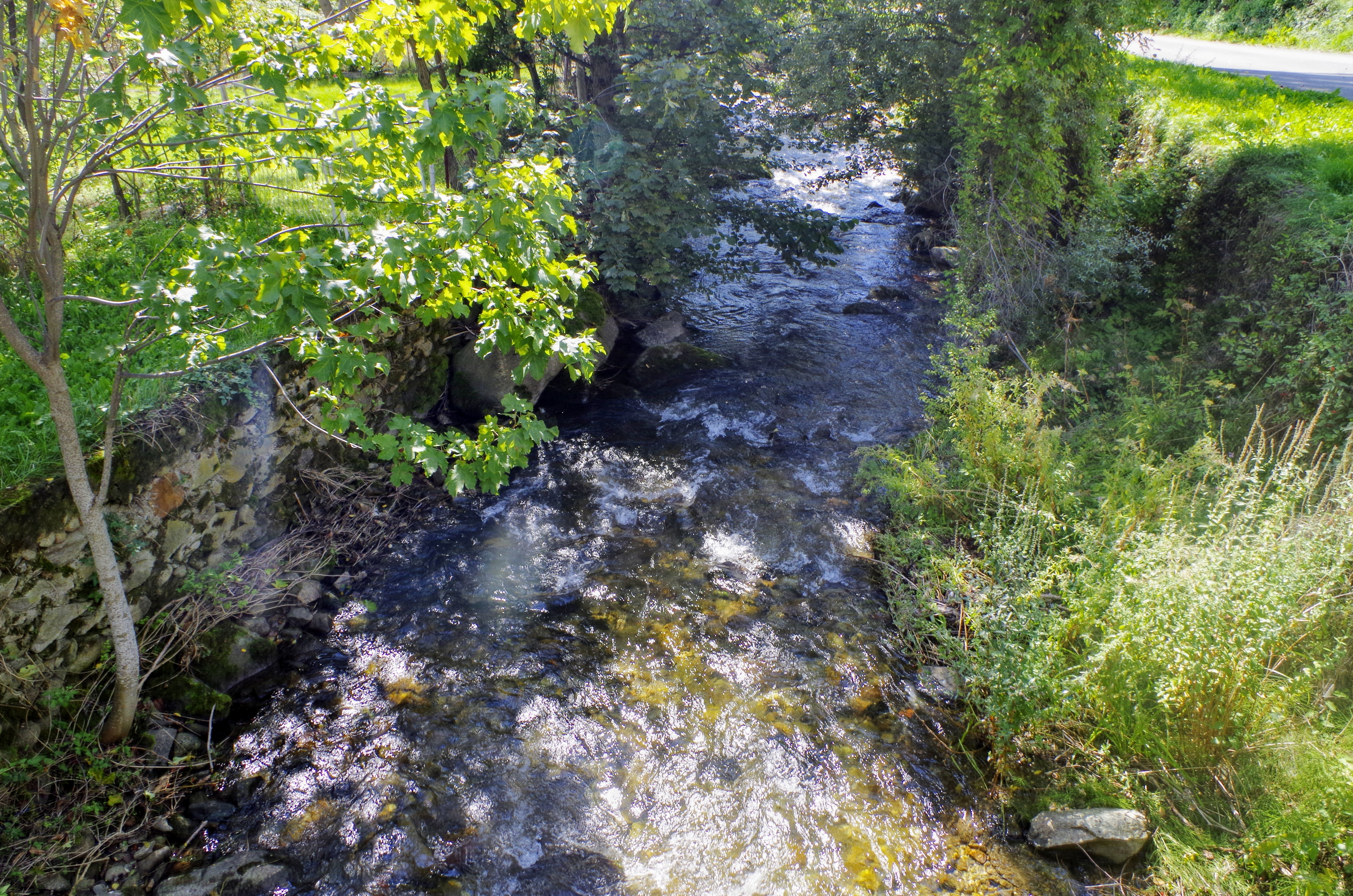 View of the Brajčino River in the village Brajčino